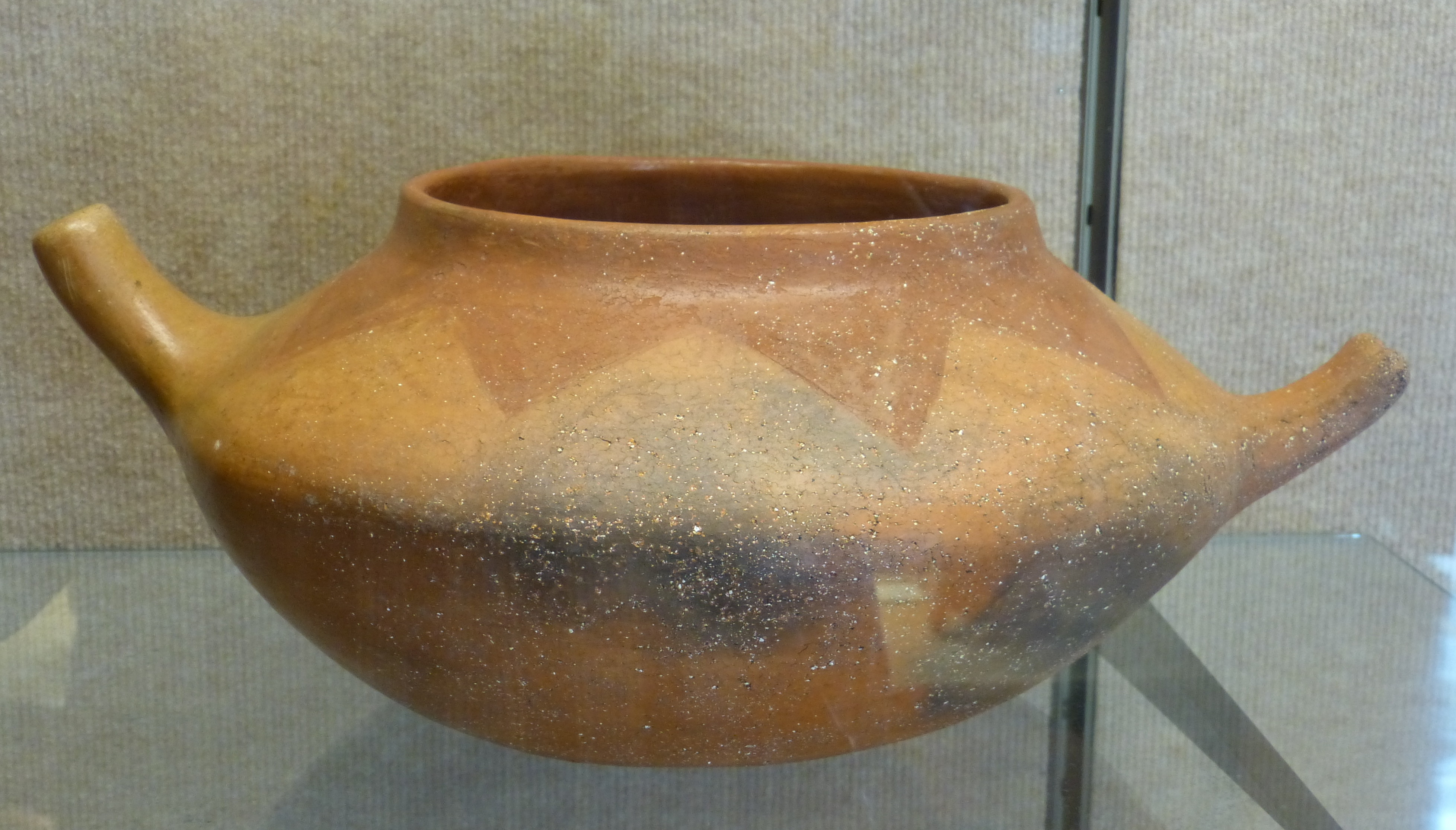 La Orotava ( Tenerife ). Museo de Artesania Iberoamerica: Ceramic bowl from Gran Canaria.